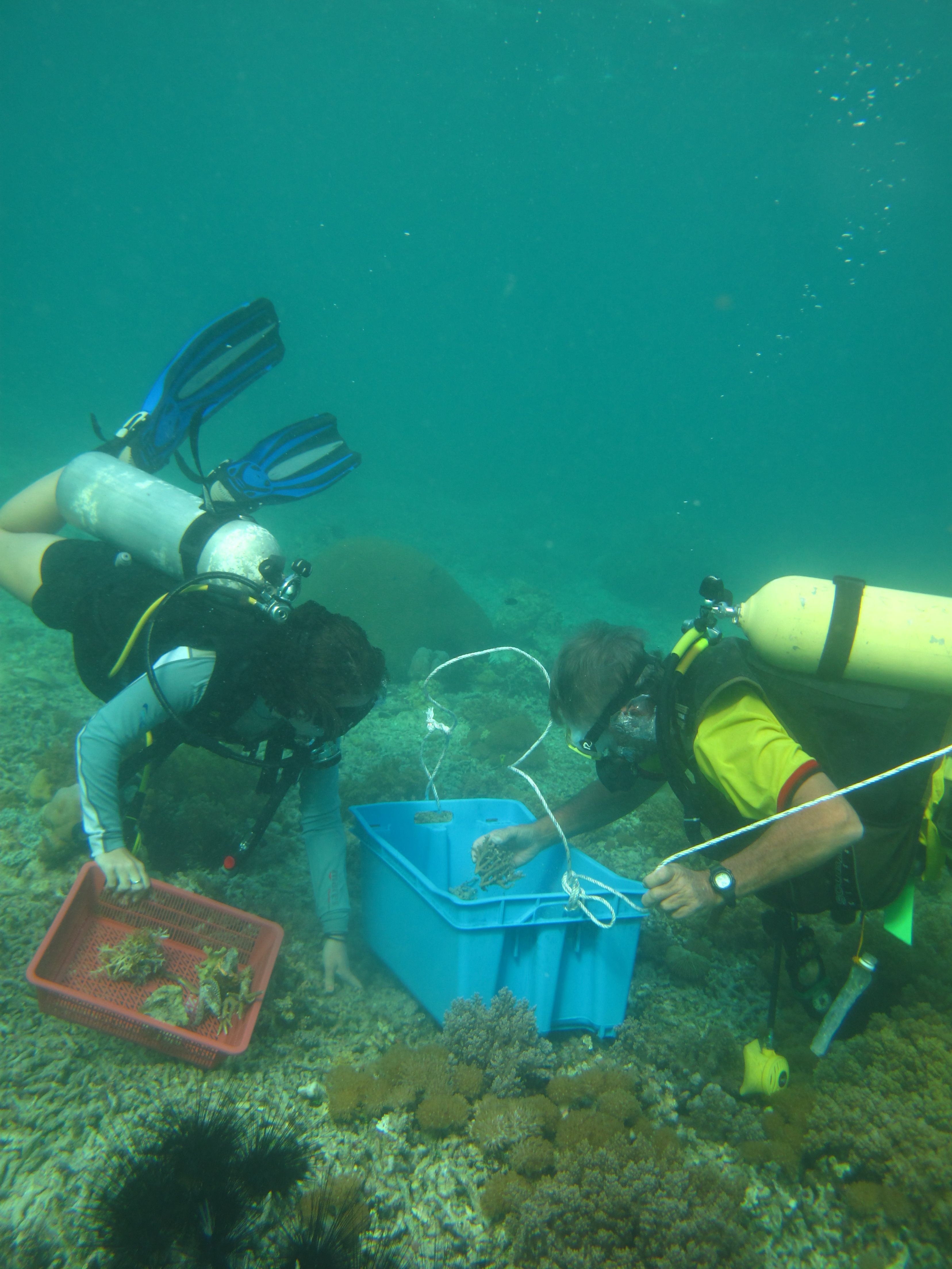 volunteer divers planting coral to rebuild reefs on Pom Pom Island, Semporna Sabah